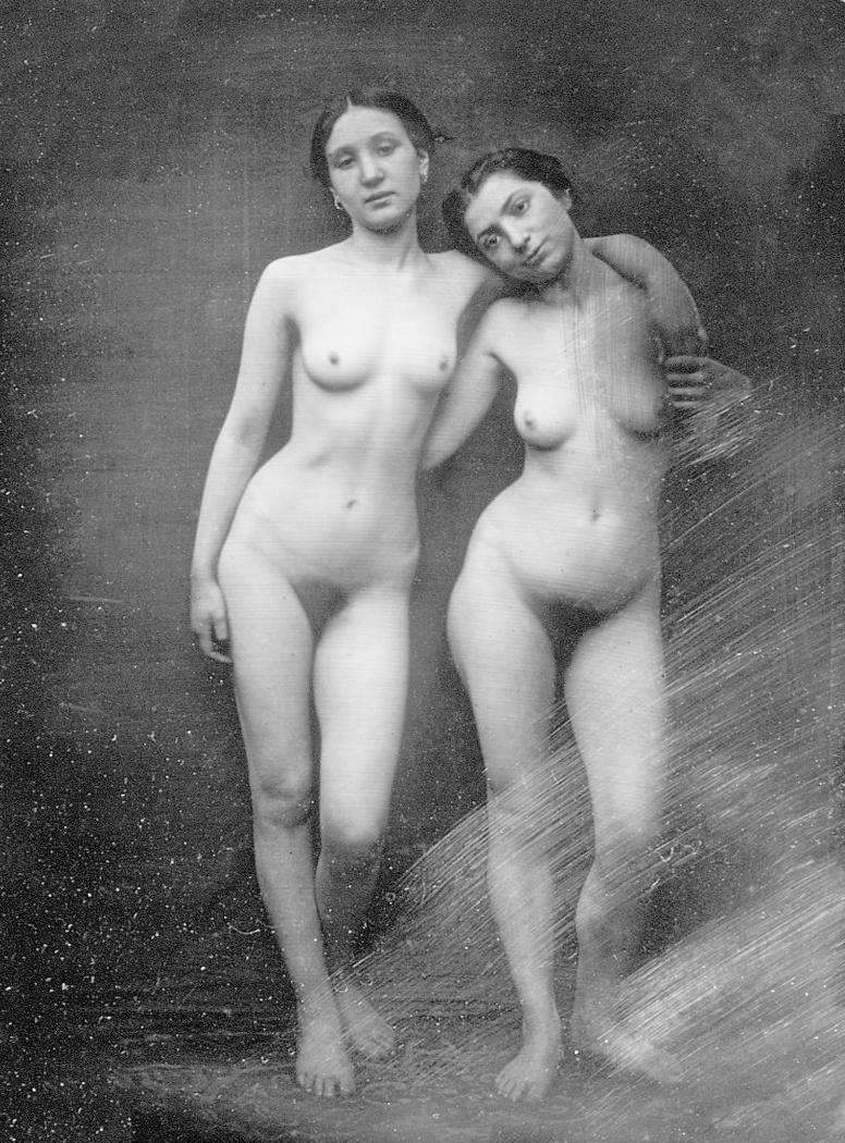 Two nudes standing. Daguerreotype. 14.6 × 14.1 cm (5.7 × 5.5 in). The Metropolitan Museum of Art, New York; The Rubel Collection, Purchase, Anonymous Gift and Lila Acheson Wallace Gift, 1997 (1997.382.46)